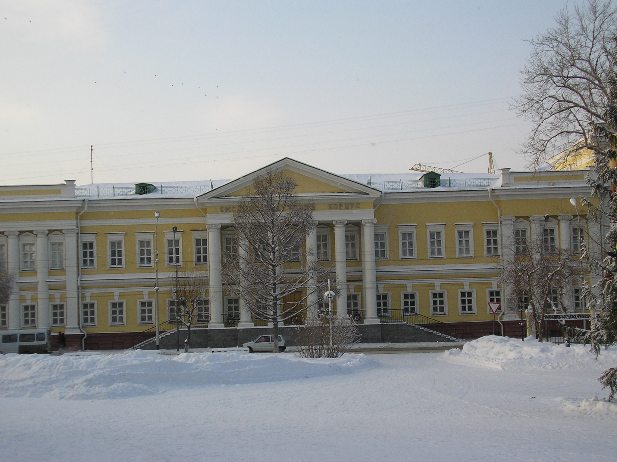 Omsk